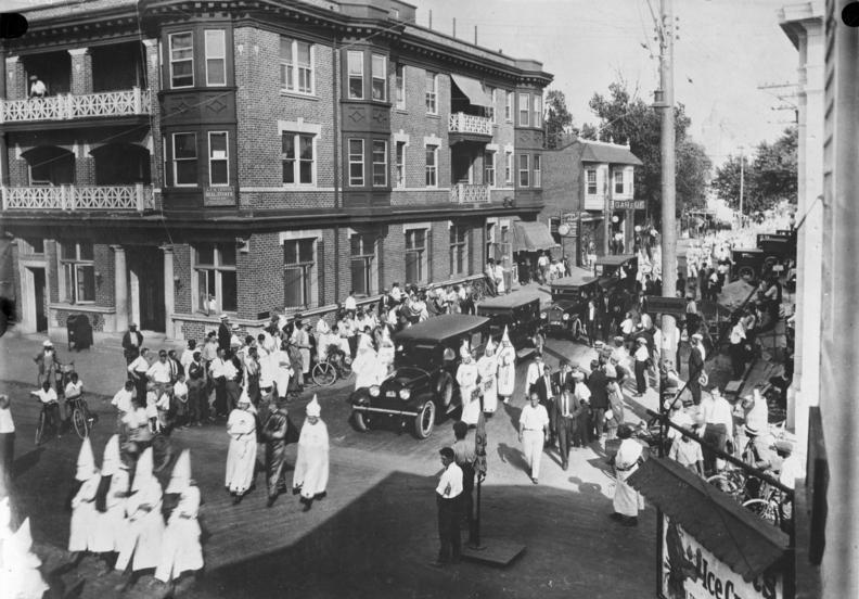 "Funeral of a high-standing member of the cult " Ku-Klux-Klan" in New Jersey. The funerals of the cult " Ku-Klux-Klan" are very ceremonial. The day of the funeral may no member of the cult may work. The funeral cortege moves by the Atlantic City town center in New Jersey." Translation of German caption from June 1931, above.